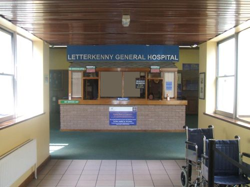 LK General Hospital Entrance Desk Front Door